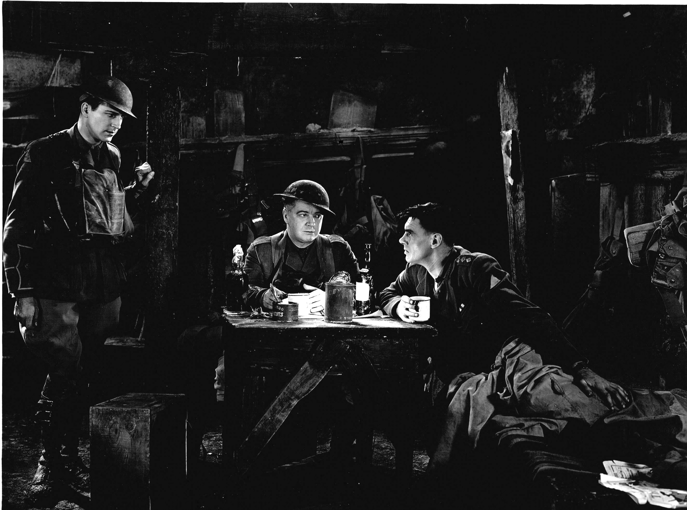 Publicity Photo for Journey's End (1930). David Manners, Billy Bevan, Colin Clive